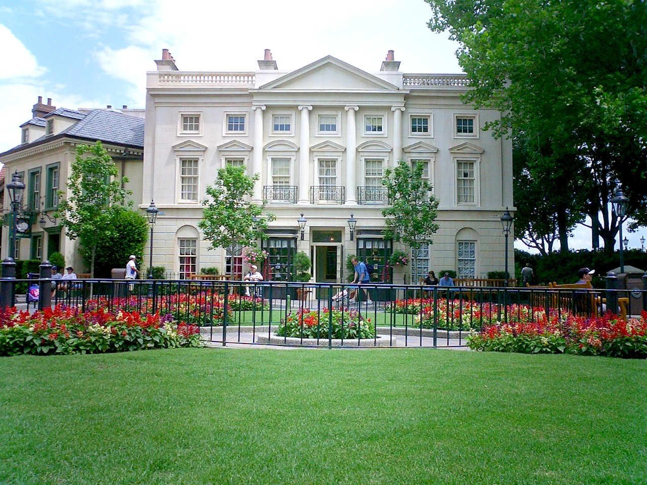 Epcot UK